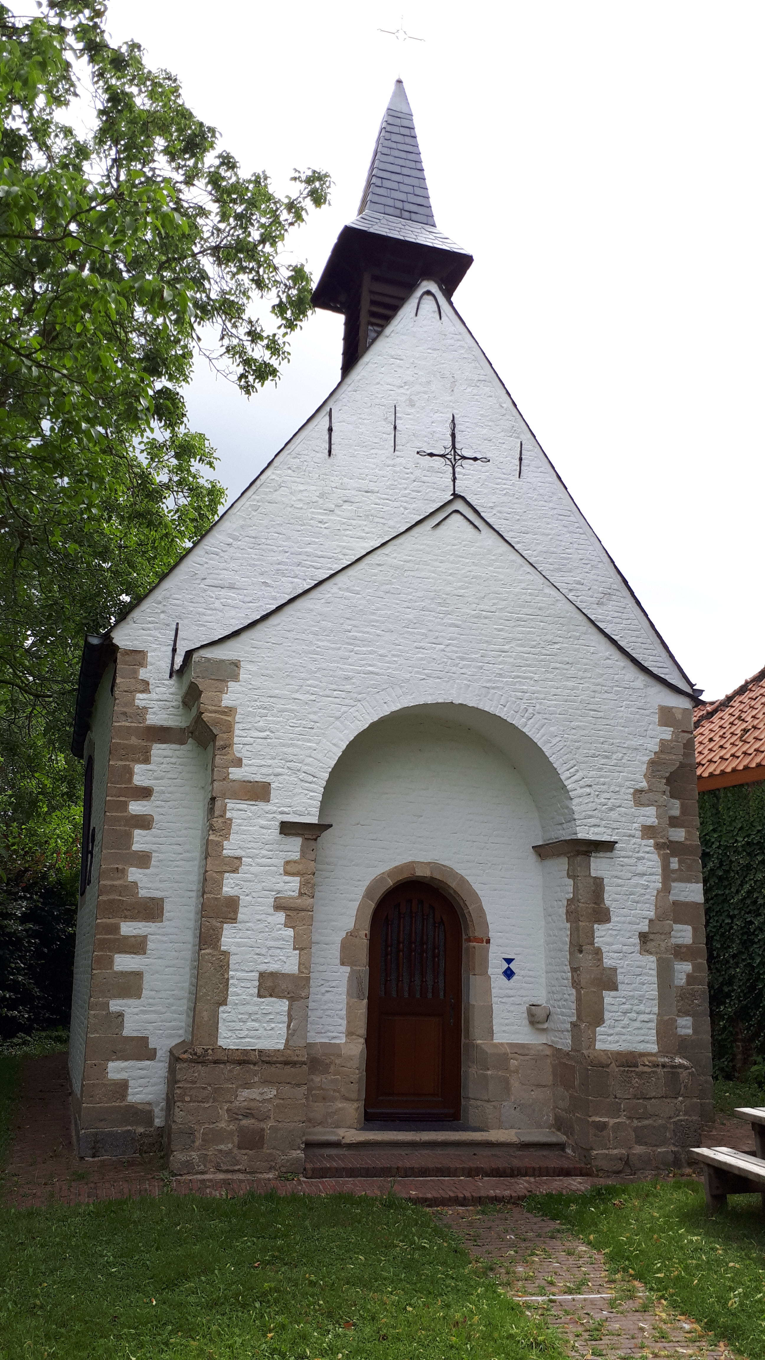 Kluiskapel in Affligem